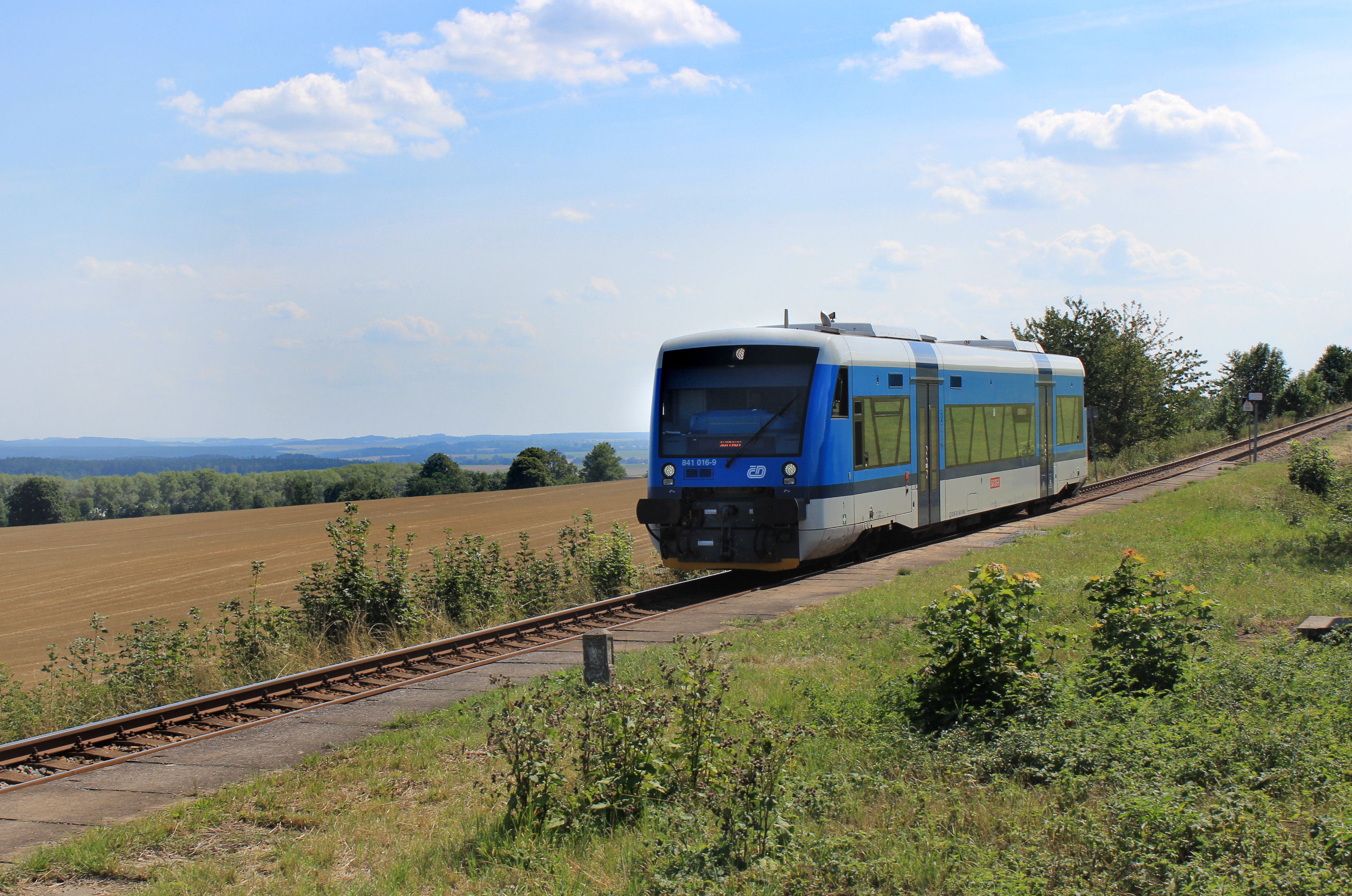 Train stop Vendolí, Czech Republic.